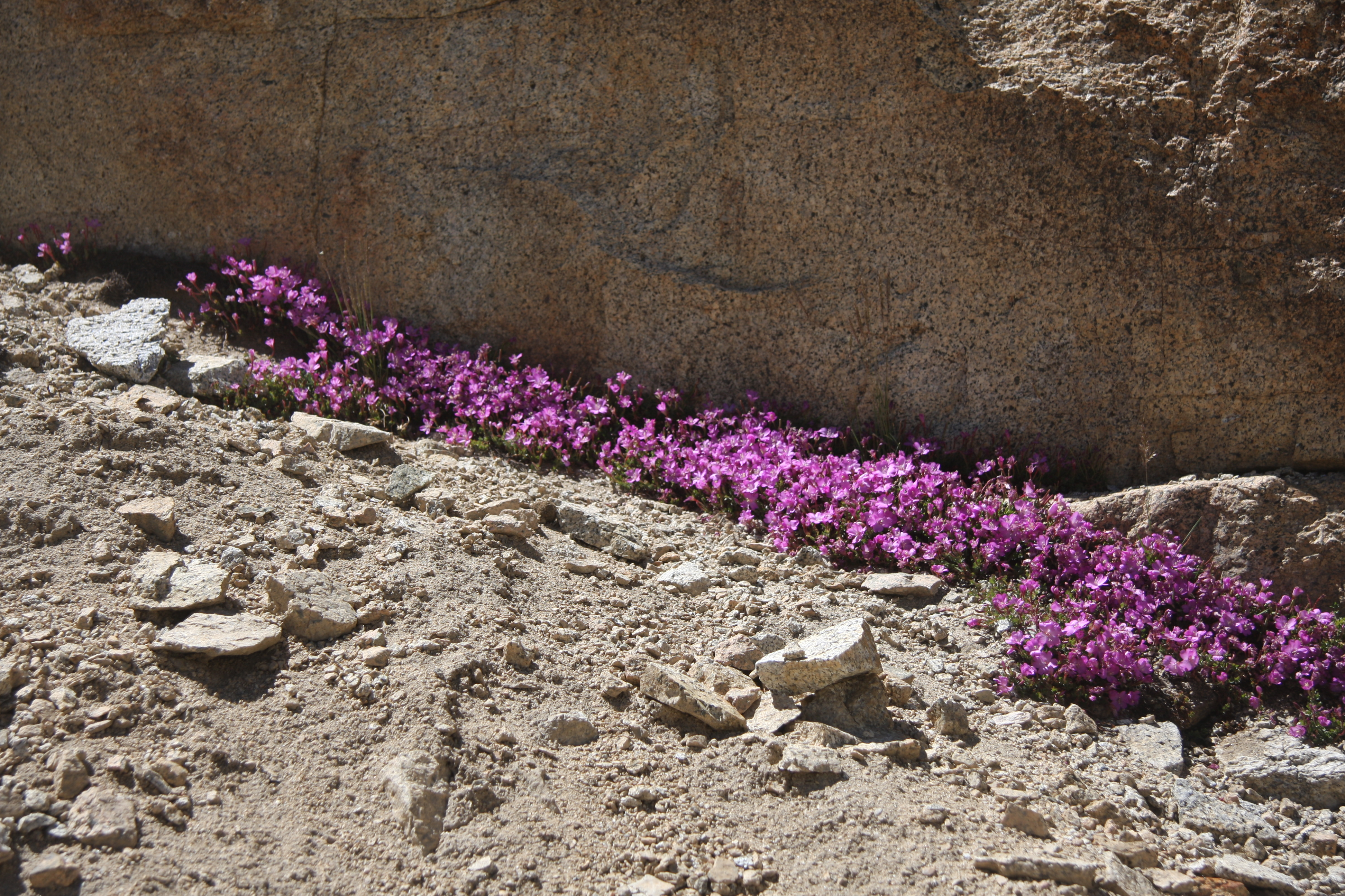 Rock Fringe (Epilobium obcordatum) at 3,750 m (12,300 ft) along built-wall switchback N of Forester Pass, Kings Canyon National Park, Sierra Nevada USA.